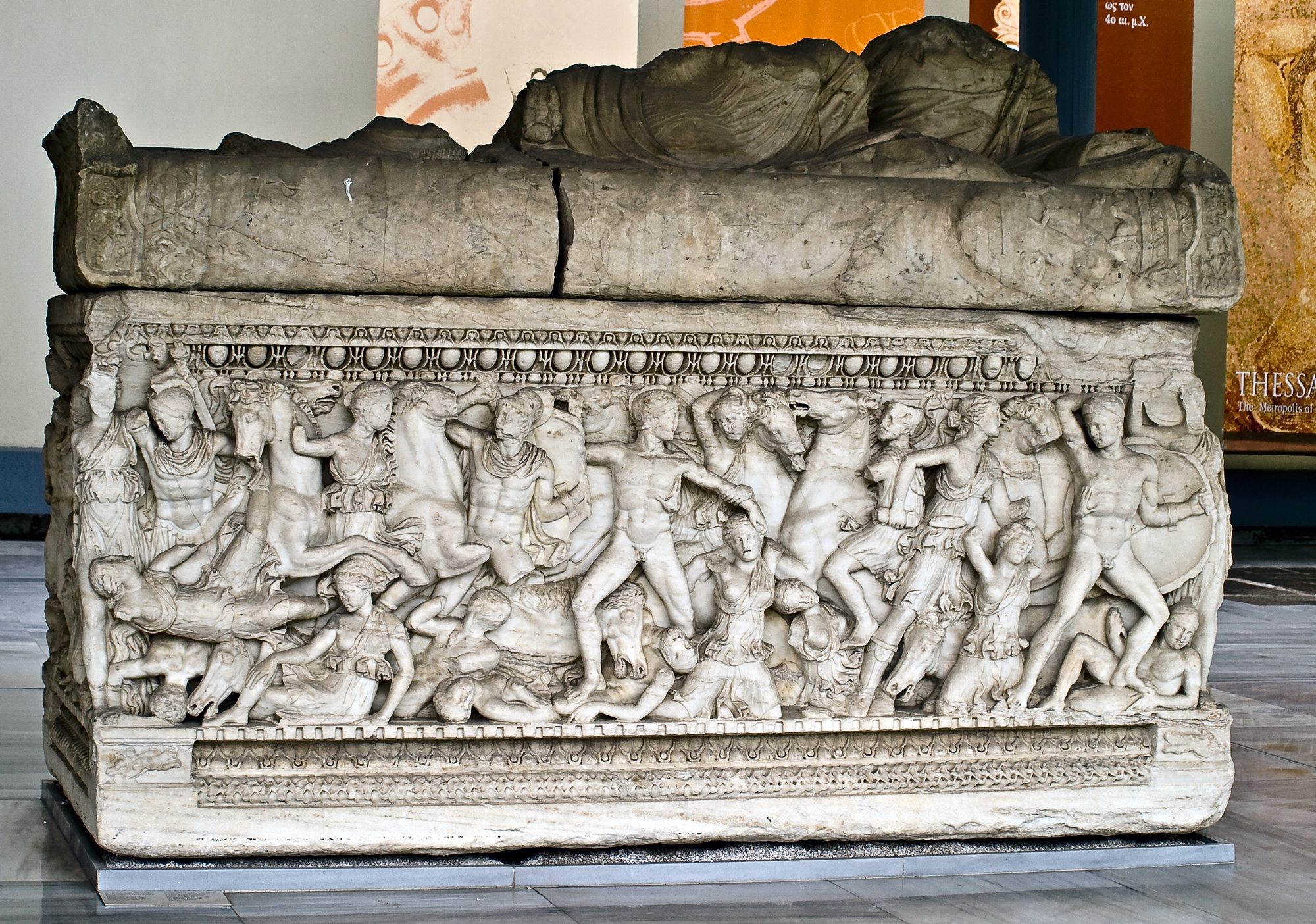 Amazonomachia scene, Marble sarcophagus, Archaeological Museum of Thessaloniki